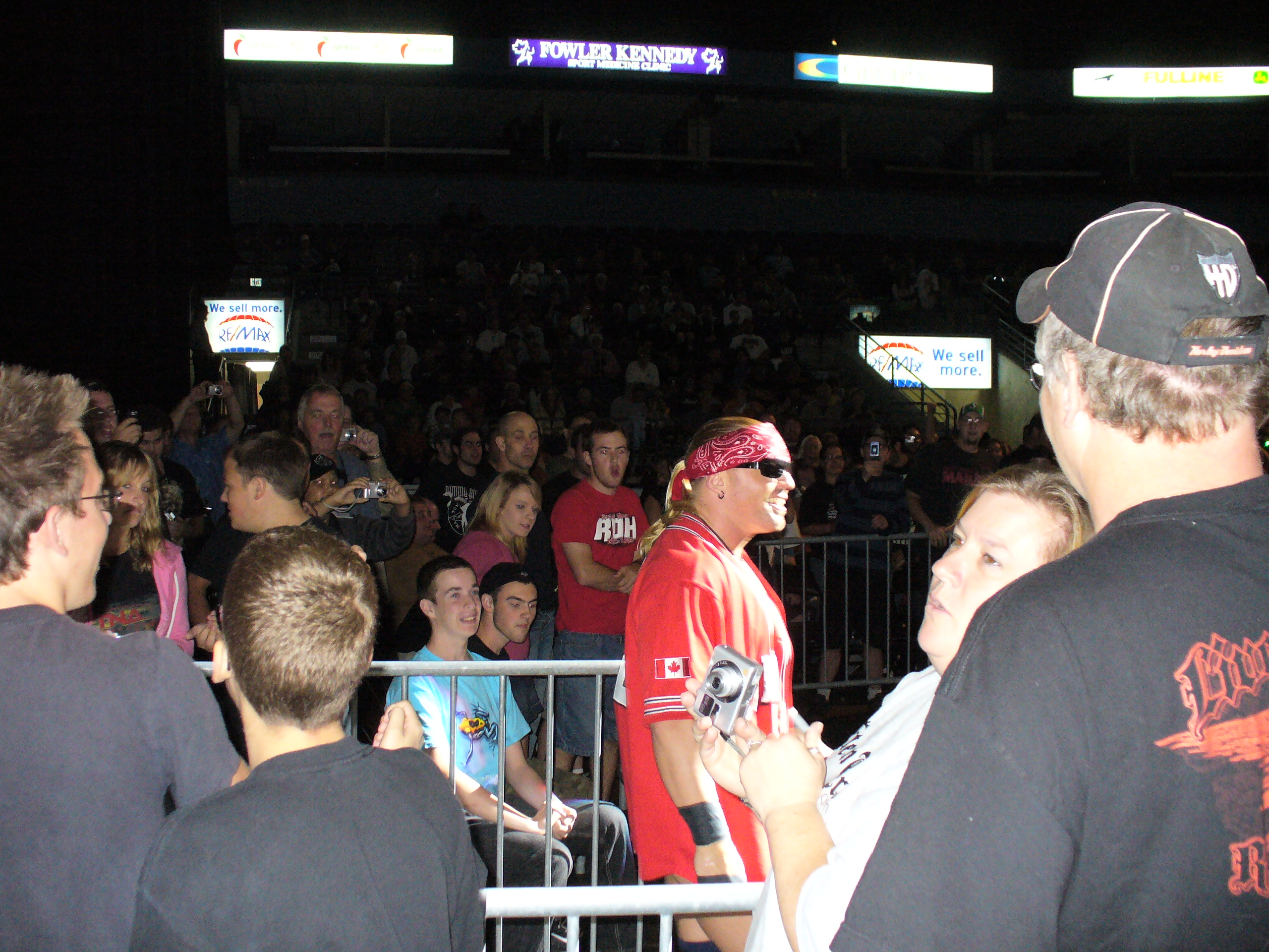 Professional wrestler Johnny Devine